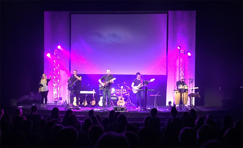 Sons of Korah performing at Dapto Anglican Church on 23 November 2017